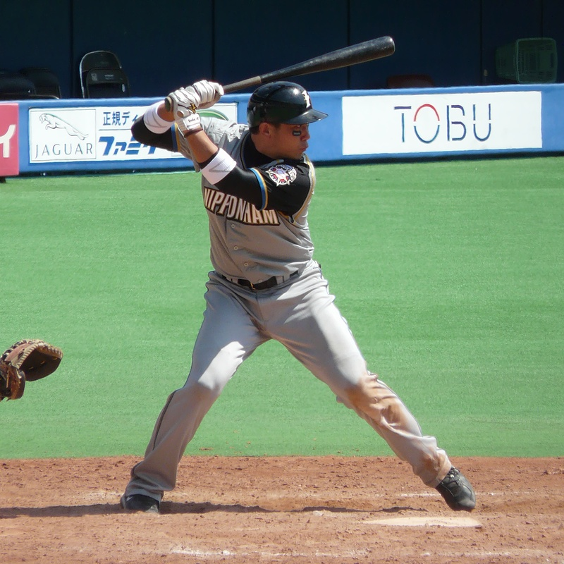 NF-Yohei-Kaneko20090825